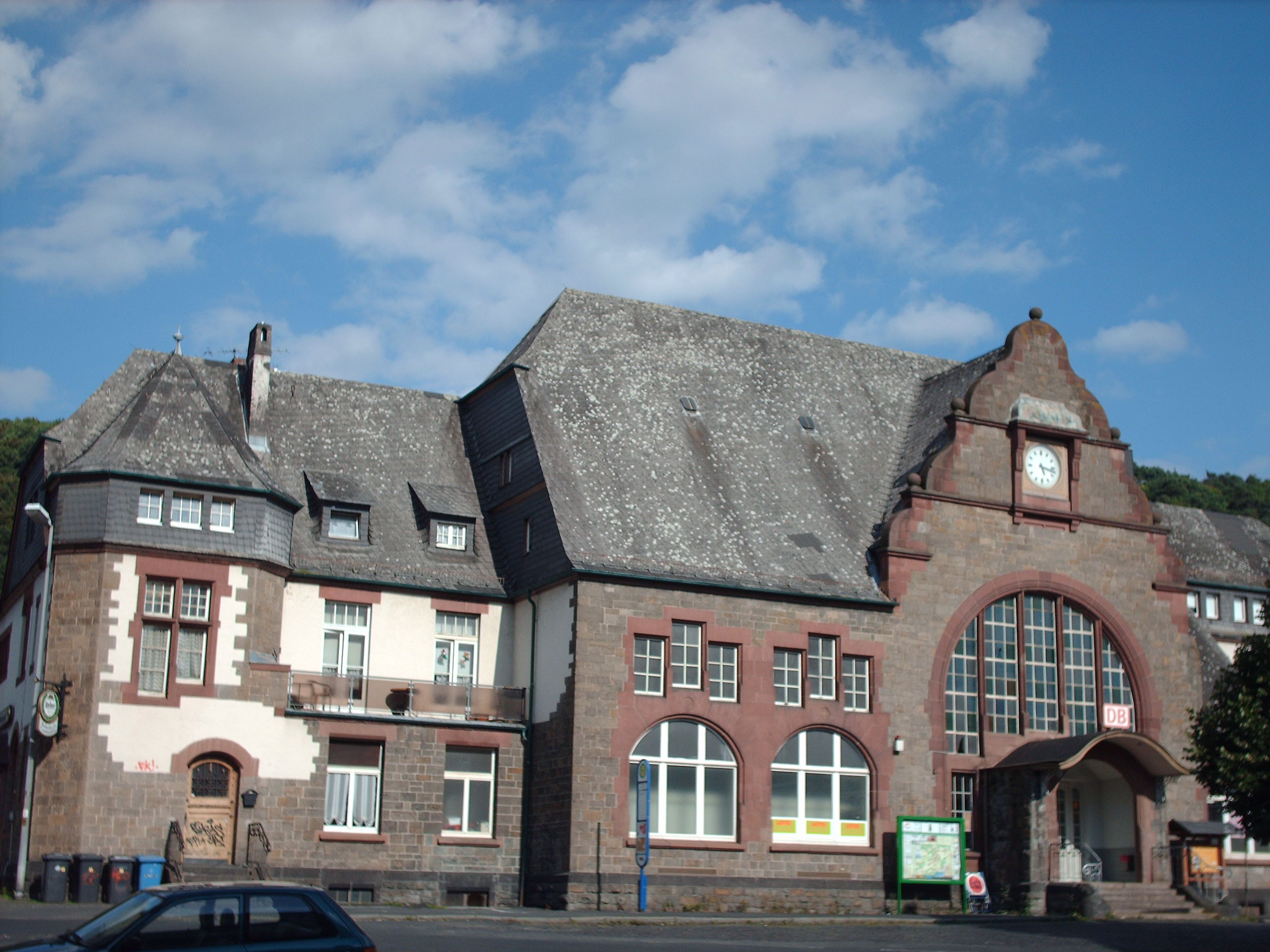 Herborn (Dillkr) station, Herborn, Germany check usage